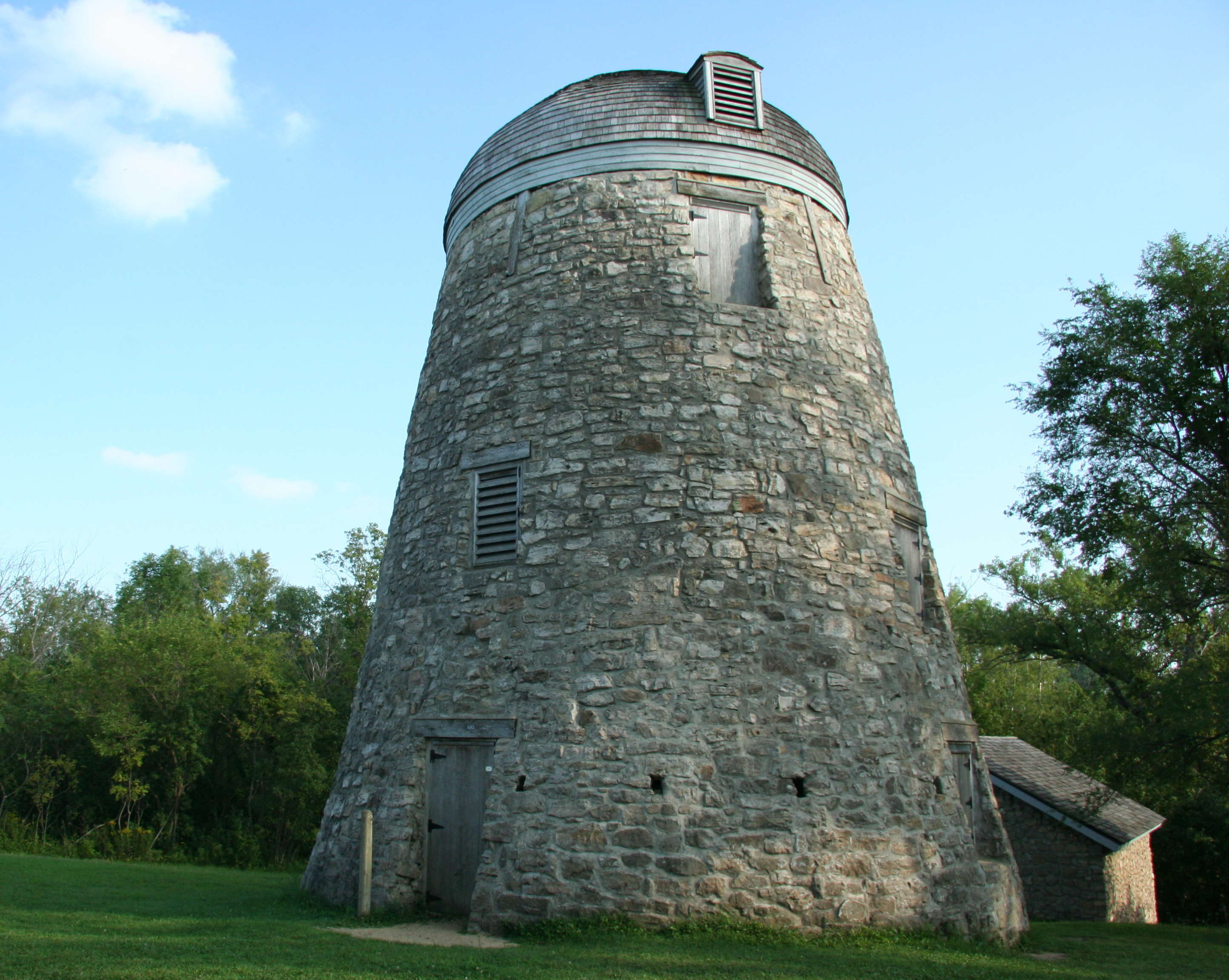 Seppman Mill and Granary, both built from local stone by Louis Seppmann, preserved in Minneopa State Park, Minnesota